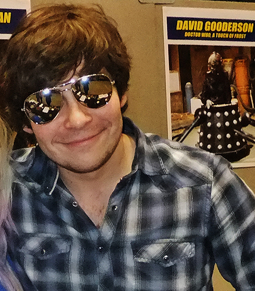 Daniel Portman appears at Collectormania Glasgow 2012